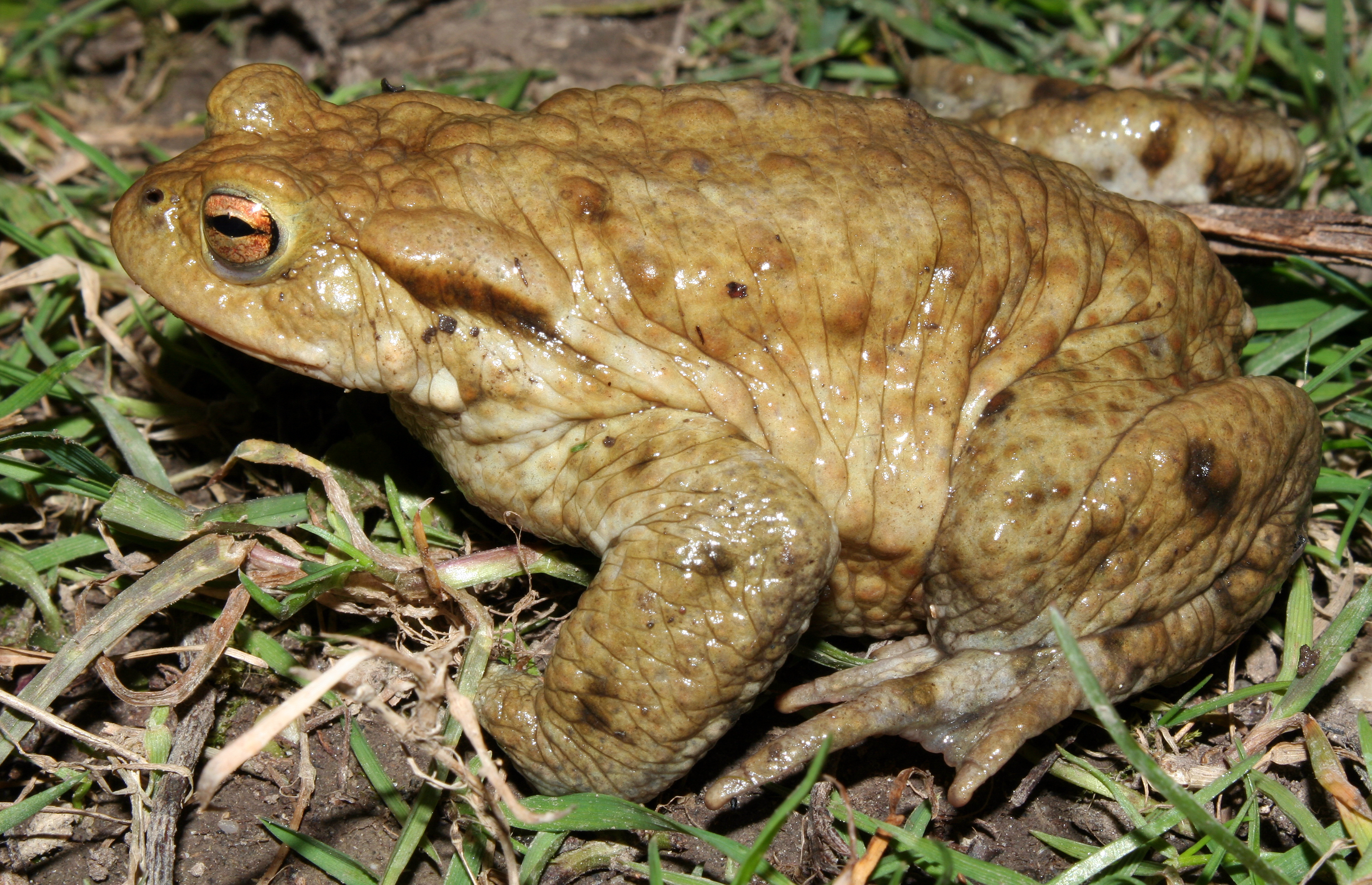 Common toad or European toad (male), Bufo bufo, Family: Bufonidae, Location: Southern Germany, Ulm, Ermingen